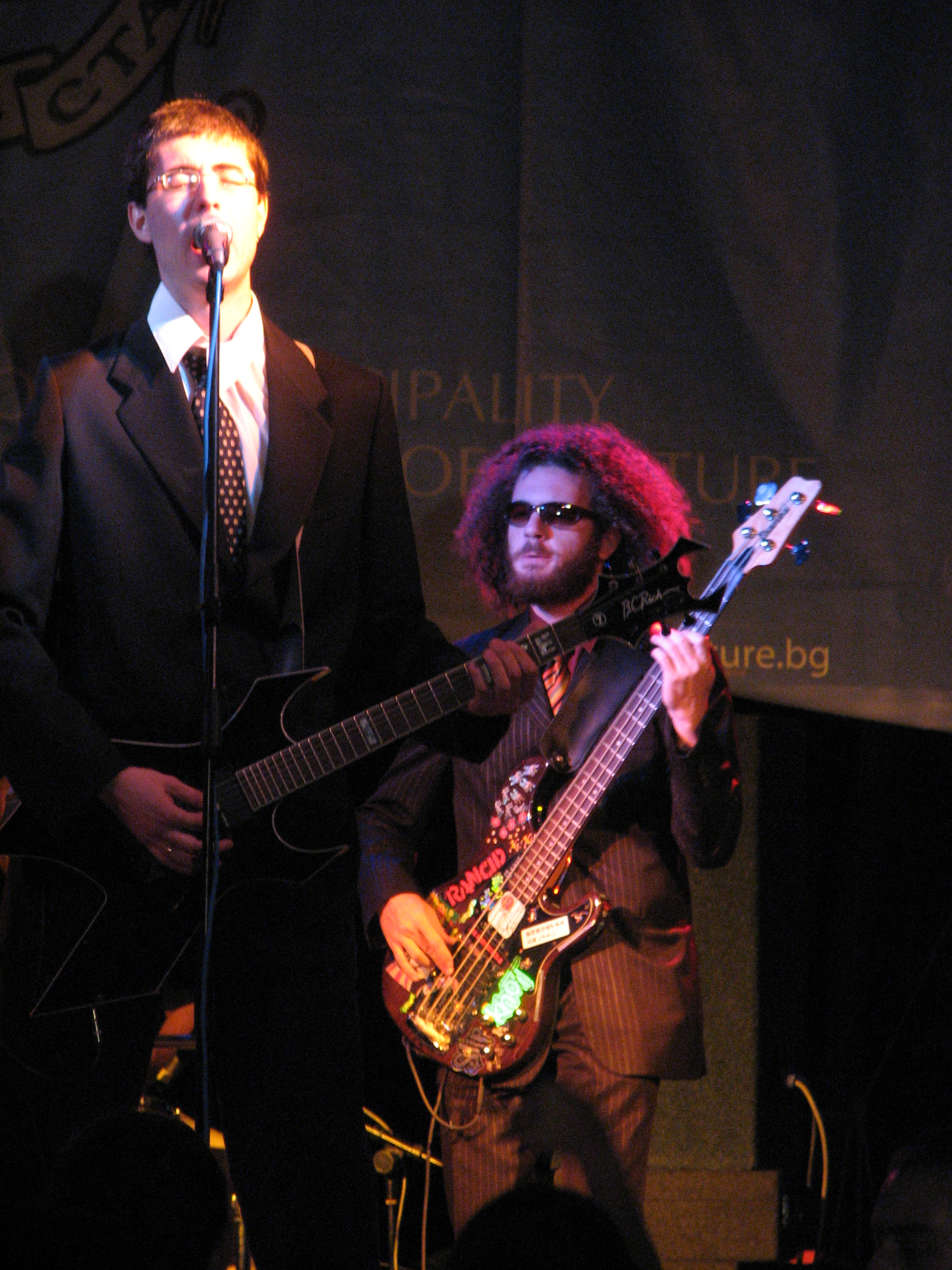 Kiril Yanev and Vladimir Leviev in a Balkandji concert on the annual "Gradat i az" (Bulgarian: Градът и аз, meaning "The City and Me") festival in Sofia, Bulgaria.